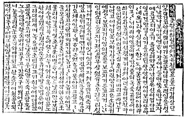 Traditional Korean Love Story